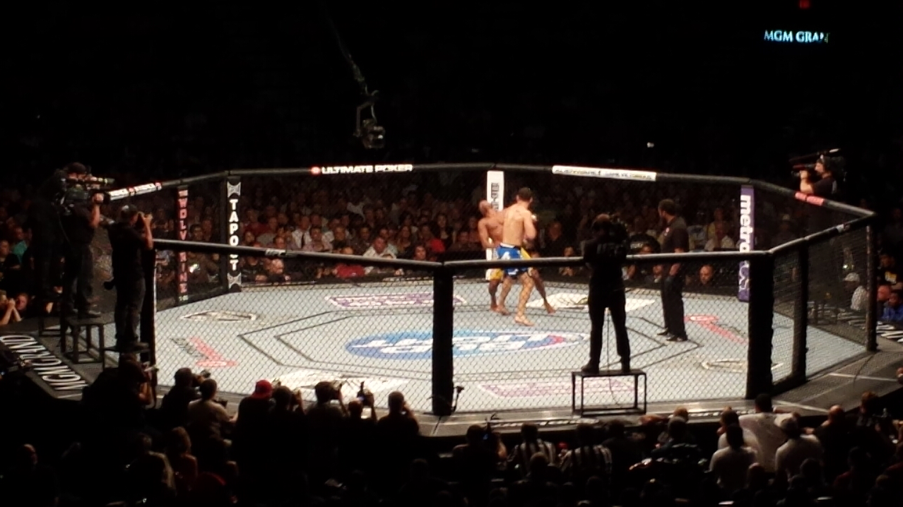 Chris Weidman knock out Anderson Silva at UFC 162.